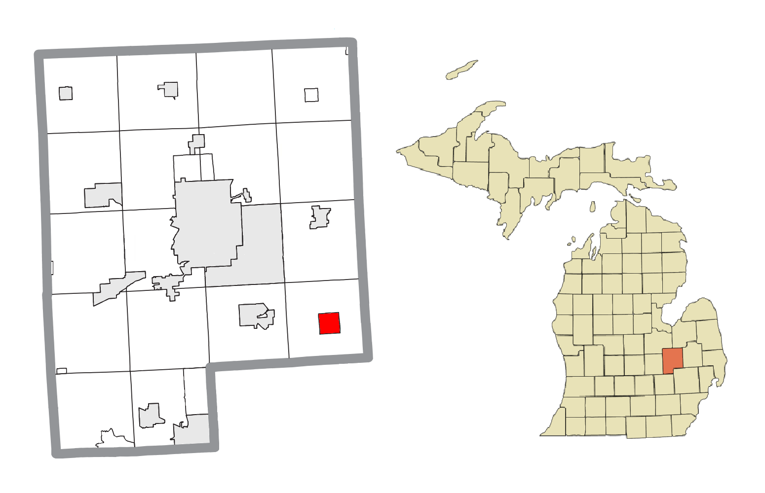 Goodrich, MI